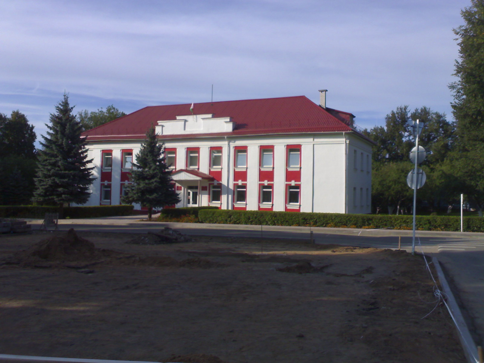 Committee of Lozna